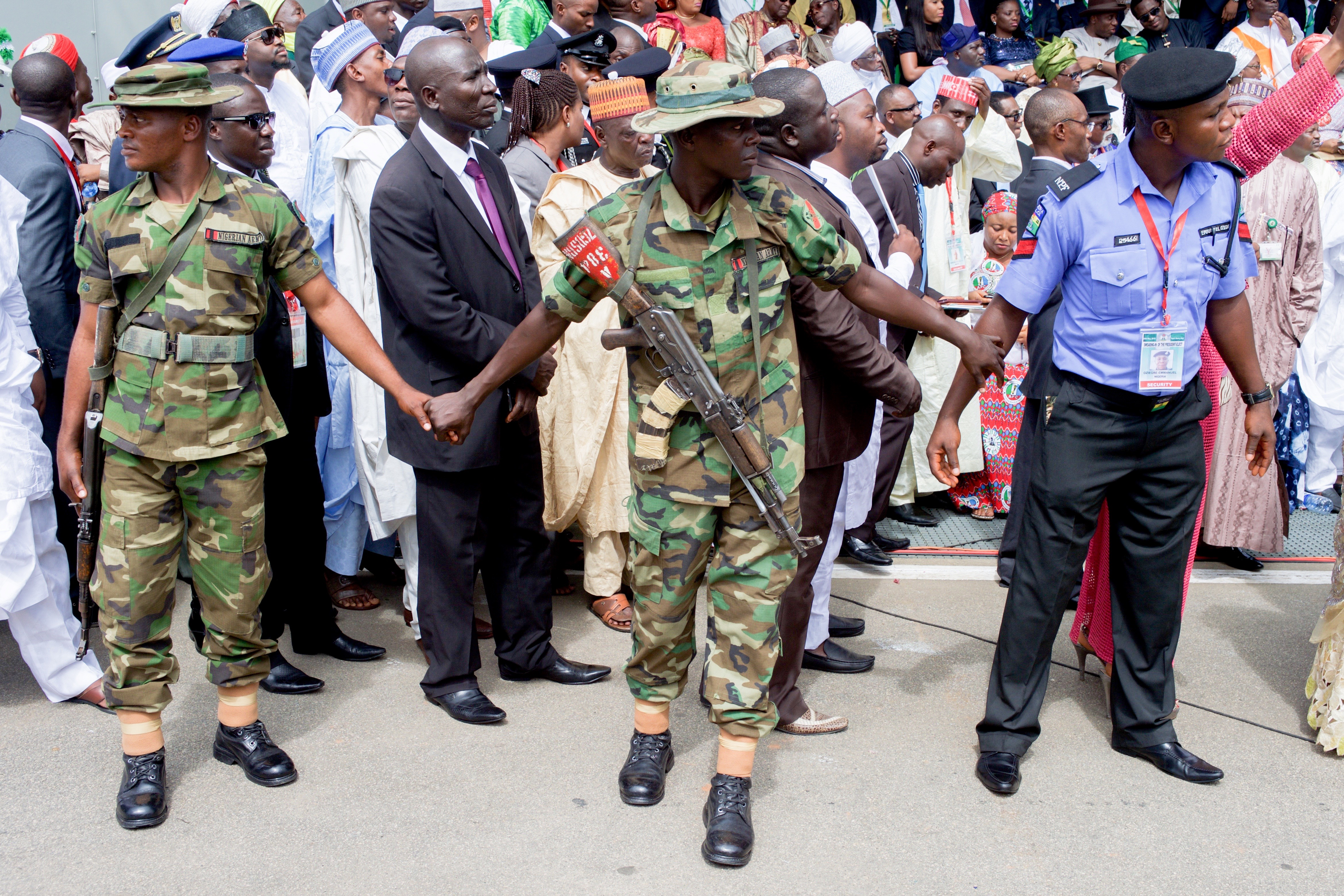 Security personnel hold hands to form a human chain as Nigerian President Goodluck Jonathan transferred power to President-elect Muhammadu Buhari during an inauguration ceremony - attended by U.S. Secretary of State John Kerry and other members of a delegation representing President Obama - at Eagle Square in Abuja, Nigeria, on May 29, 2015. [State Department photo/ Public Domain]